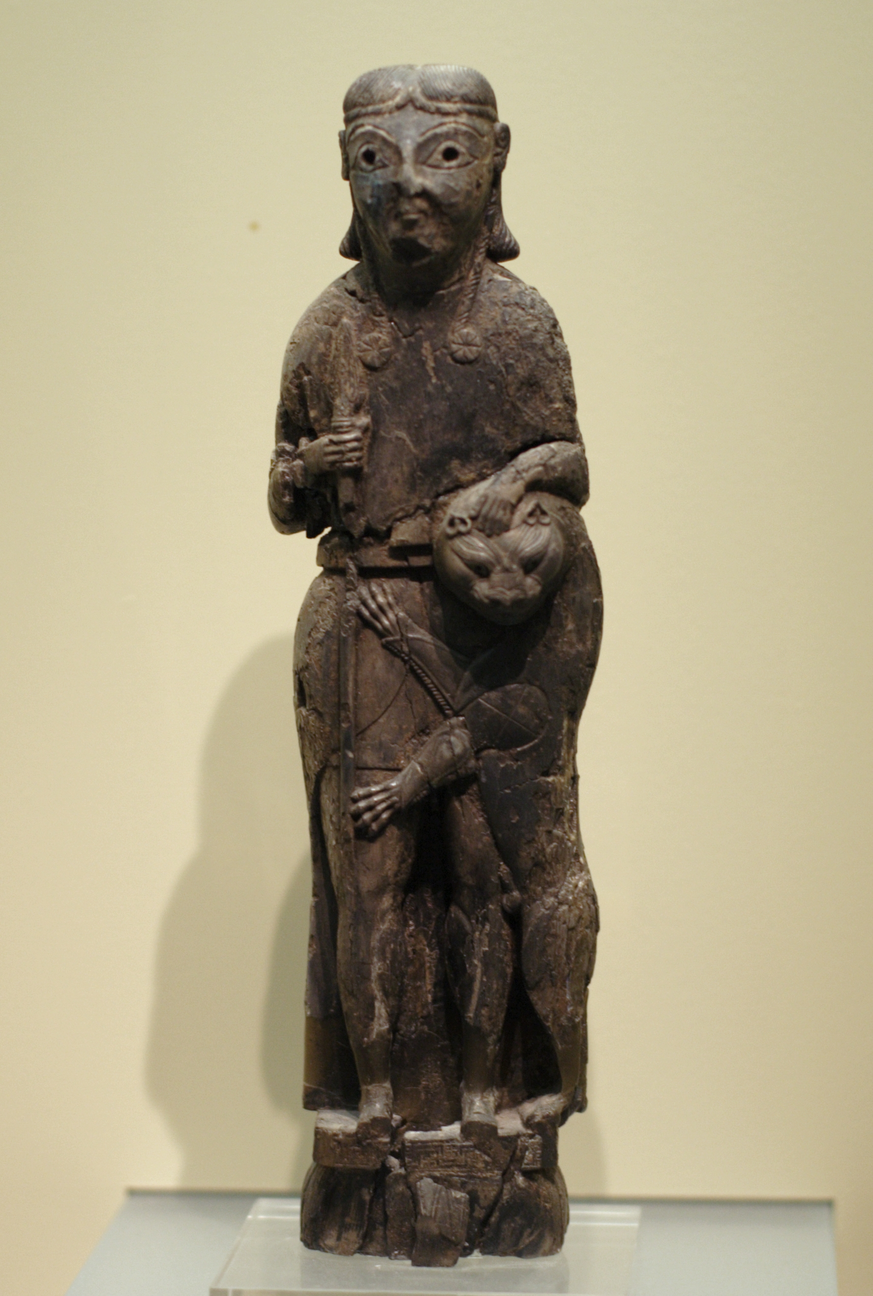 Man with a lion. Ivory statuette, around 600 BC. Archaeological Museum of Delphi.